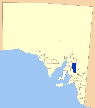 Modification of Astrokey44's original map found here: File:SA_LGA_blank.png Position of Coober pedy LGA